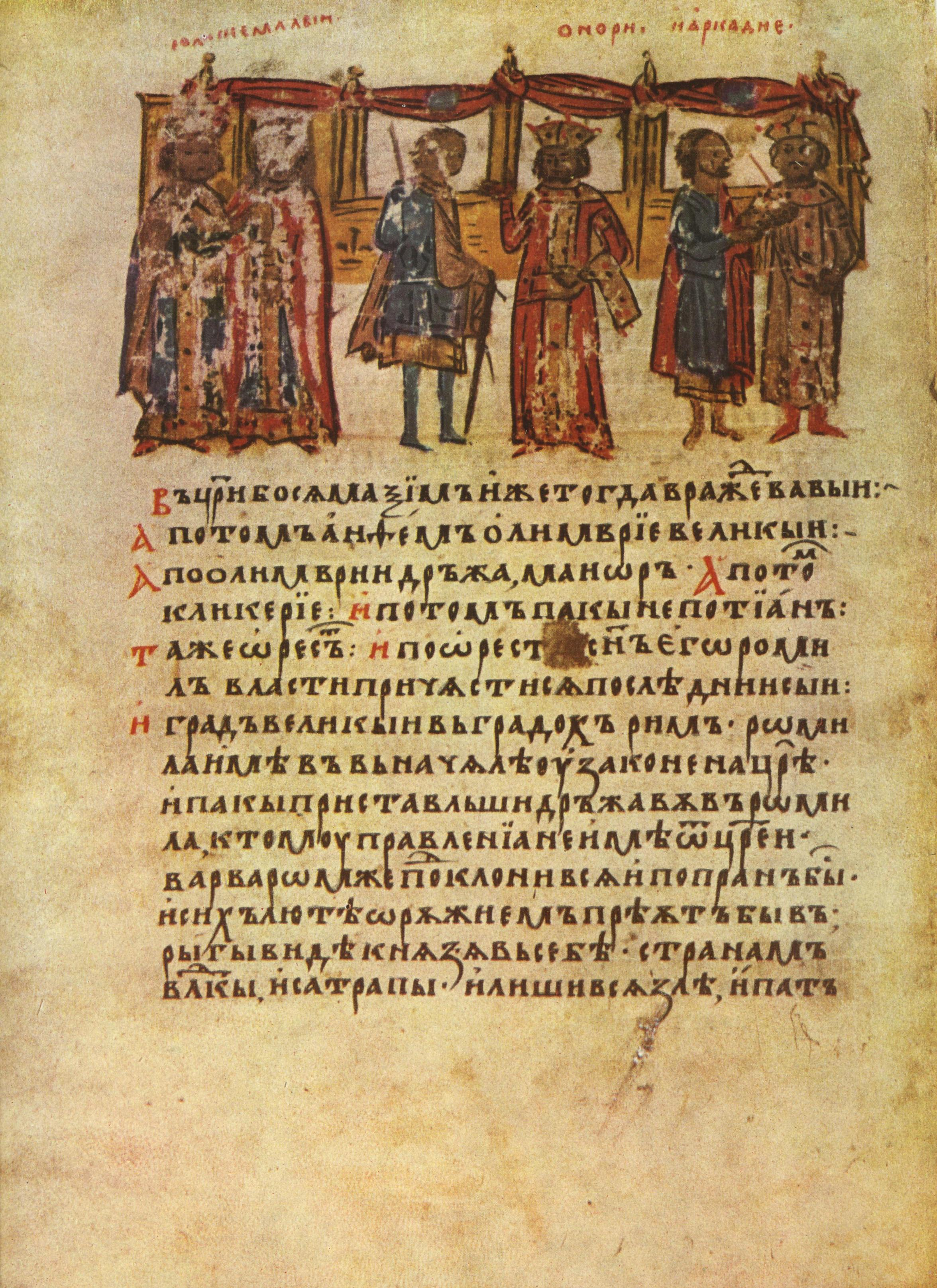 Miniature 32 from the Constantine Manasses Chronicle, 14 century: Roman emperors Arcadius, Honorius and Theodosius I.